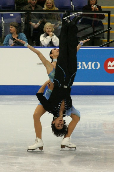 Federica Faiella & Massimo Scali perform a reverse (or, genderbending) lift at the 2006 Skate Canada.